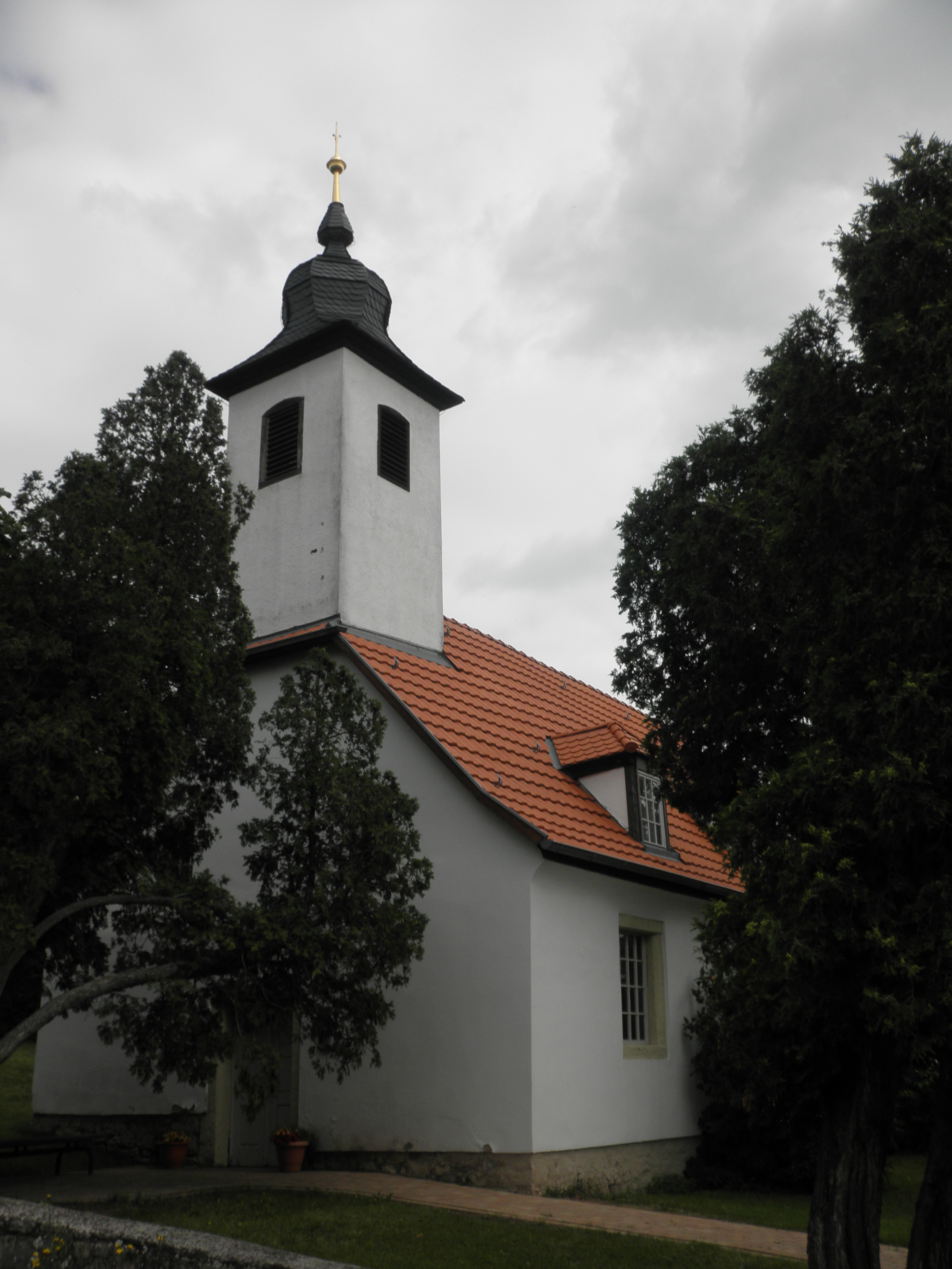 Church in Rhoda (Möbisburg-Rhoda) in Thuringia